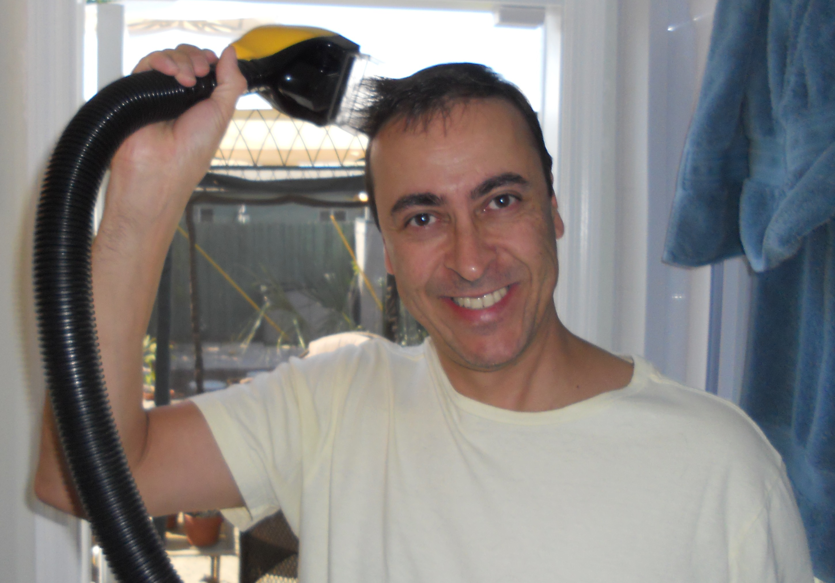 A man, in need of a haircut and without much time, uses a Flowbee, an electrically powered vacuum cleaner attachment made for cutting hair.